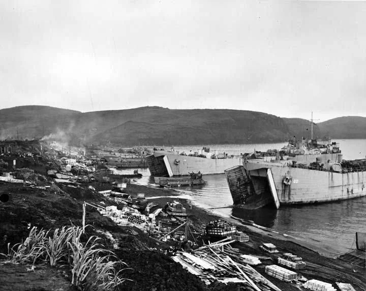 Uploaded by Evan(Salad dressing is the milk of the infidel!) 22:52, 28 November 2006 (UTC) USN Combat Narrative: The Aleutians Campaign | ibiblio - The Public's Library and Digital Archive